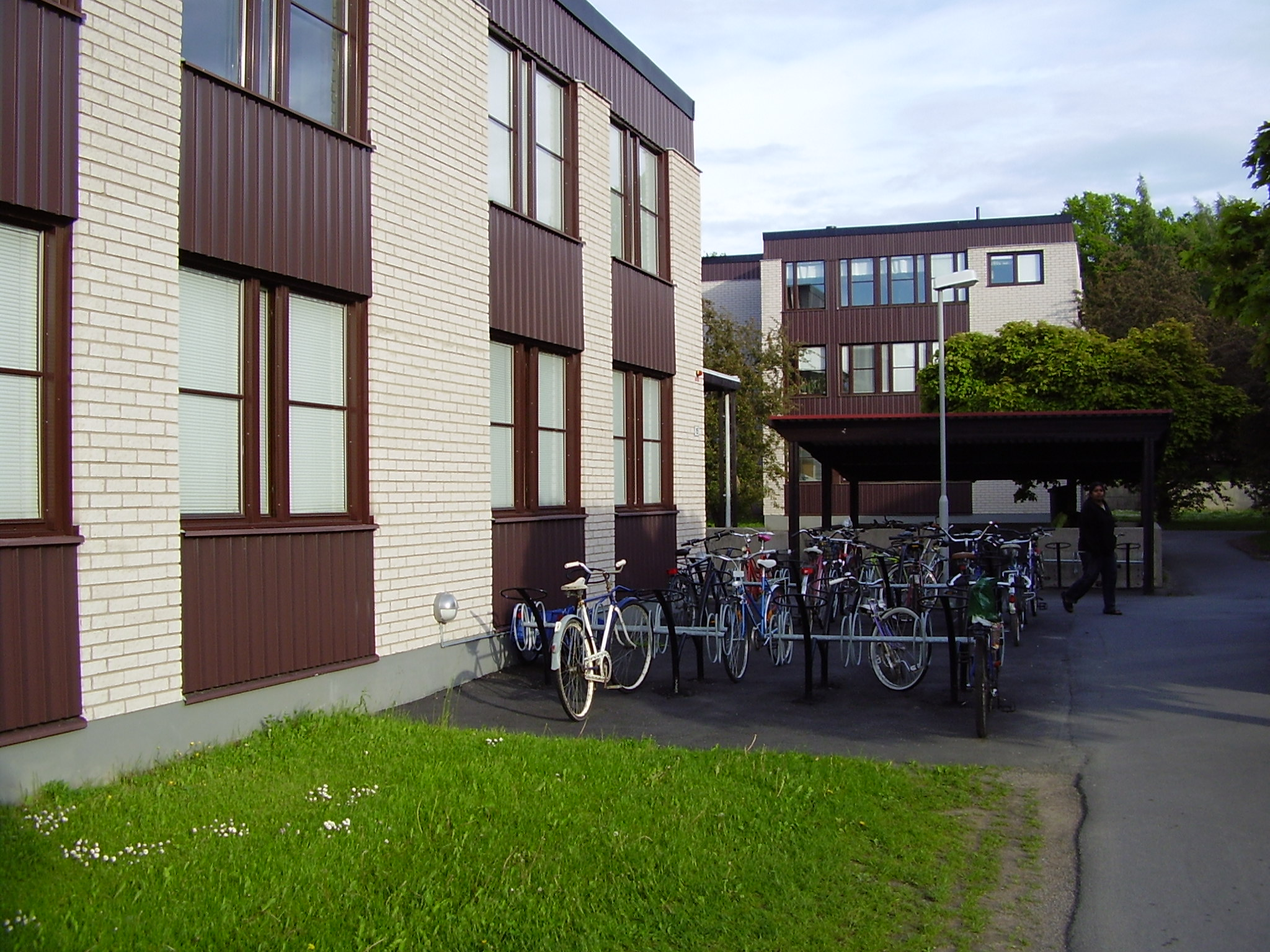 Studentryd Foto:Lavas.